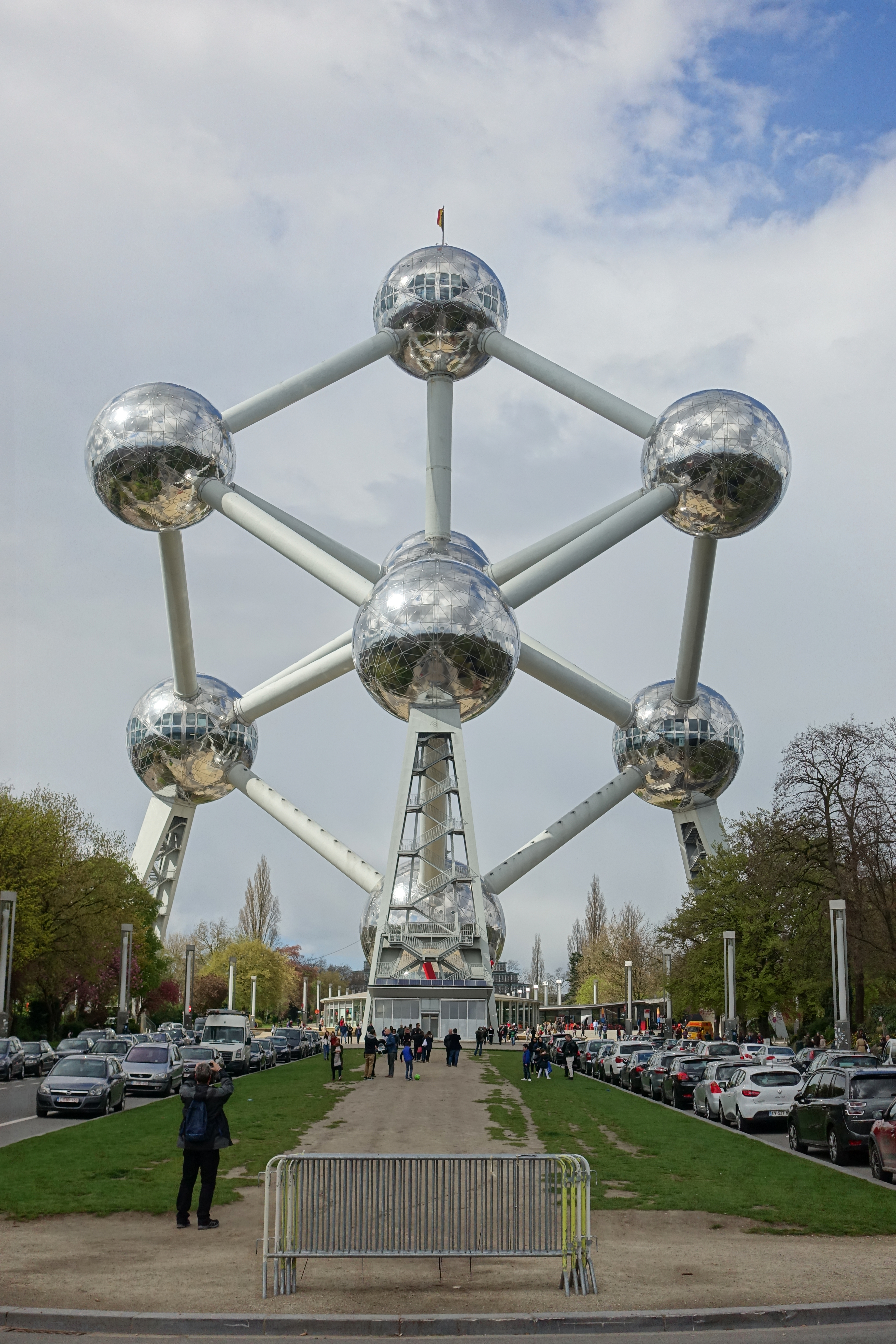 Atomium - Brussels, Belgium.